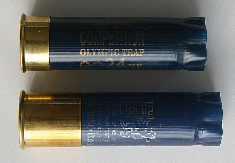 12 gauge shot-gun shells: 12x70 (on top) and 12x76 magnum